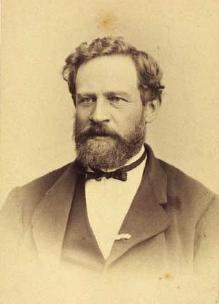 Peter Christopher Bang (1829-1905), Danish colonel